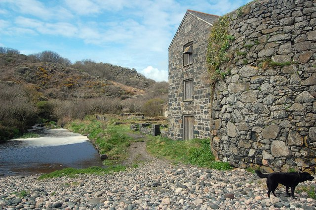 Poltesco Serpentine Works 1 See Geographer Martin Bodman's geograph in this square for information about the 19th Century serpentine works. The building on the right is the surviving warehouse. The tower further right is the base of a winch platform to haul pilchard boats up the slipway.